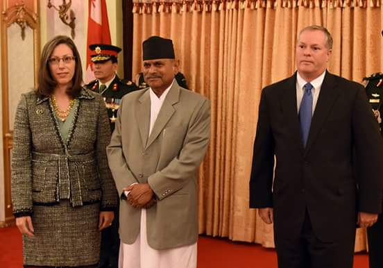 Alaina B. Teplitz with President of Nepal, HH. DR. Ram Baran Yadav of Nepal.